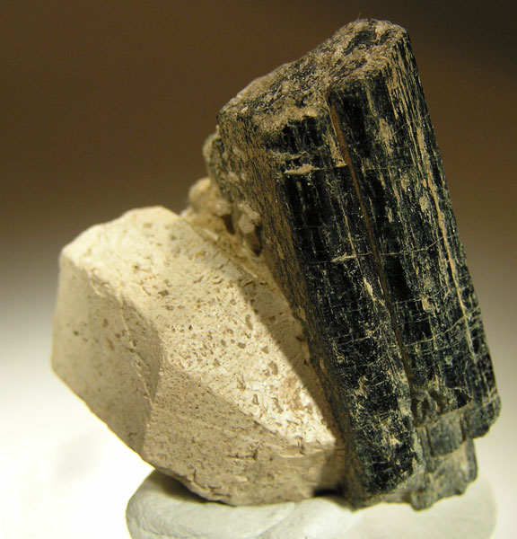 Apatite-(CaOH), Hornblende Locality: Oksøyekollen (Oksøykollen; Oxøiekollen), Snarum, Modum, Buskerud, Norway (Locality at ) Not only a VERY uncommon specimen (a crystal of Norwegian apatite attached to a euhedral crystal of hornblende), but it came with an old label from 1868 on which it is erroneously named "chlorapatite" - the bottom line says: Univ. min. inst.: Elling Gerthus, 1868. This is a wonderful locality piece and a piece of history at the same time. either crystal alone is GREAT for the locale! Hornblende crystals of such sharpness are not common. 3.5 x 3.4 x 1.5 cm